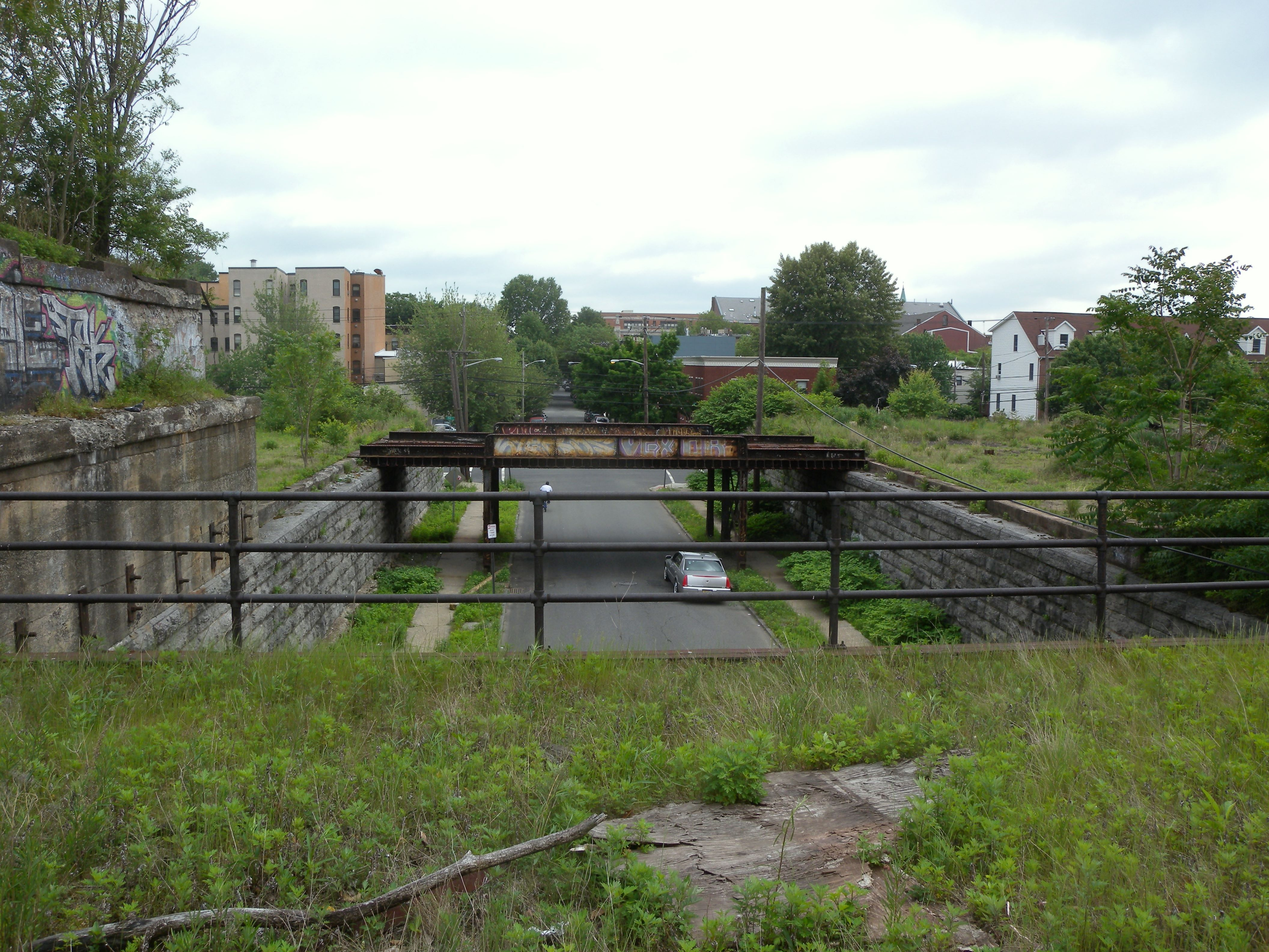 Looking south from main line, at a branch line heading southeast, on a cloudy afternoon.